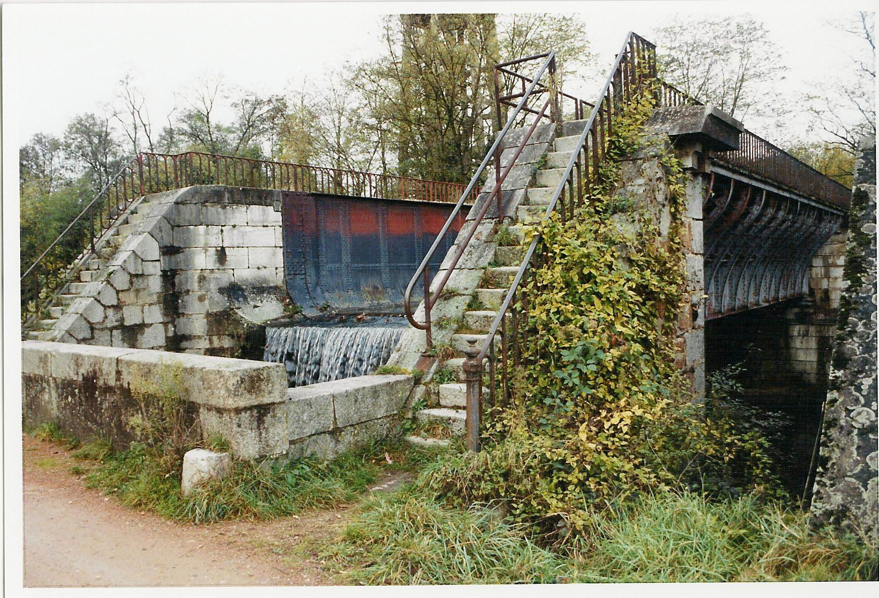 Vue rapprochée du pont Pisserot, à Roanne, au-dessus du canal de Roanne à Digoin